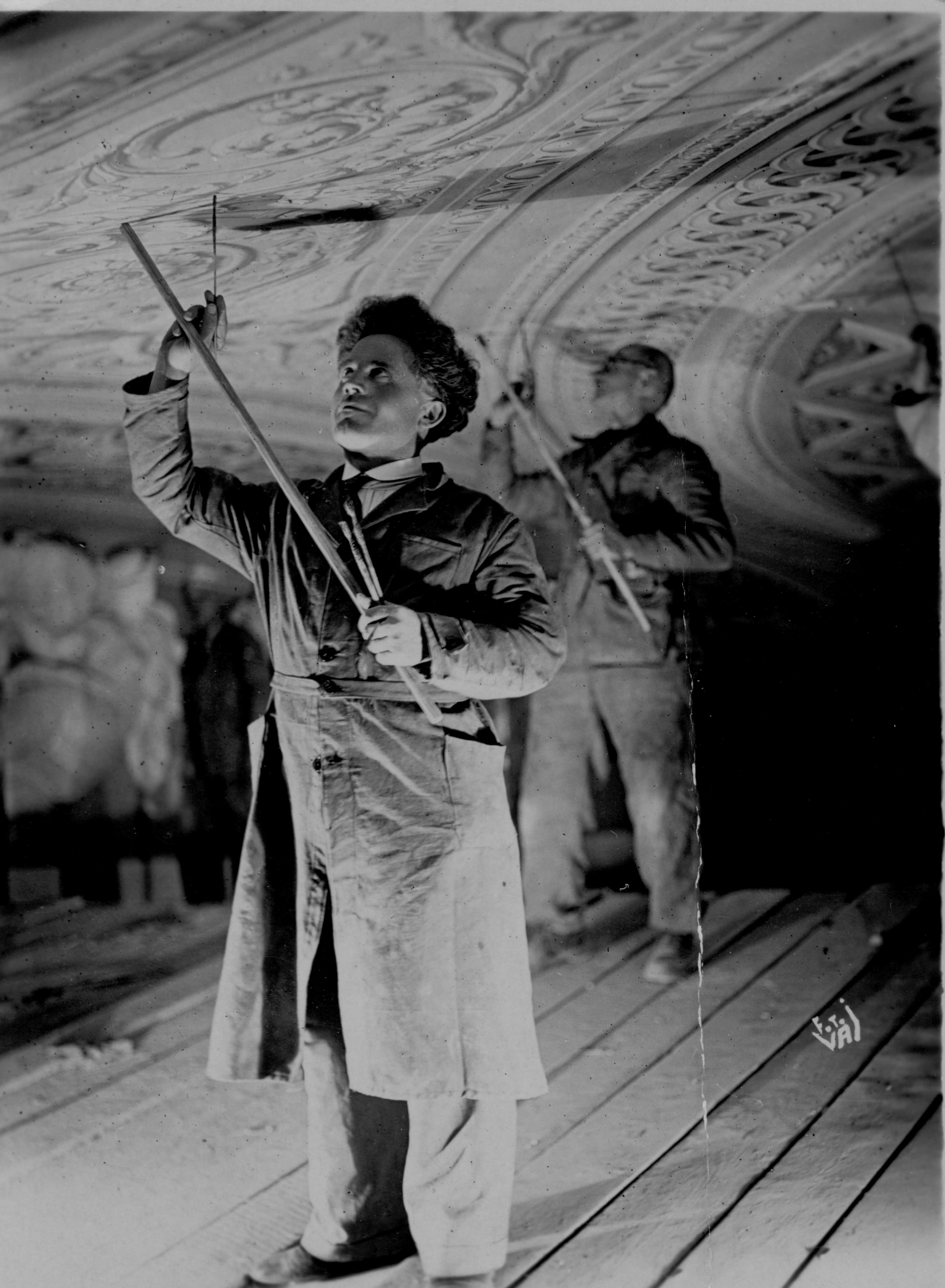 Luigi Migliavacca at work, Teatro alla Scala, Milan, 1946.